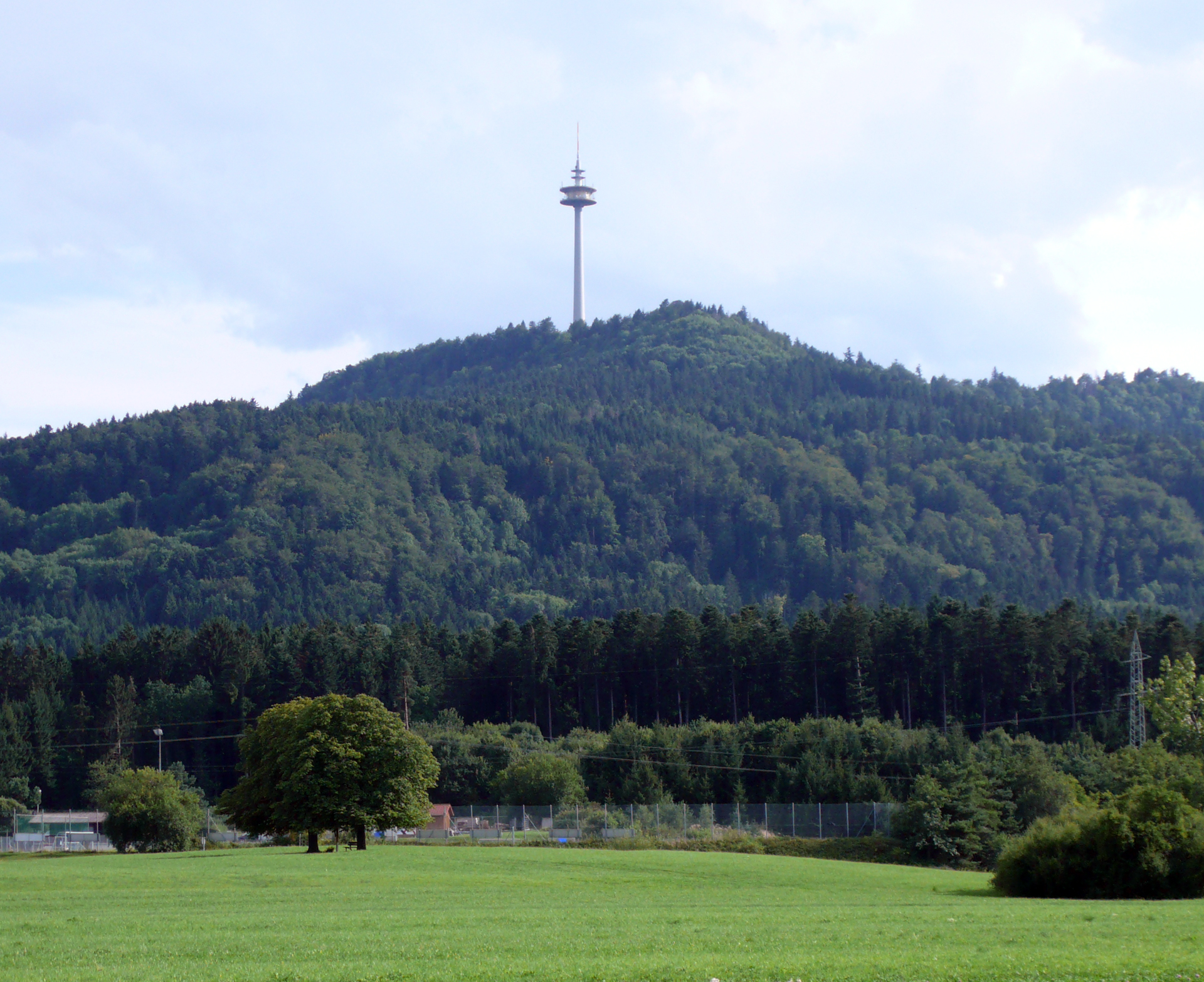 Plettenberg mountain in the Swabian Jura (Germany).